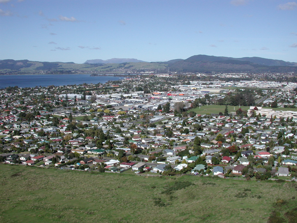 Rotorua viewed from gondola up Mount Ngongotaha.